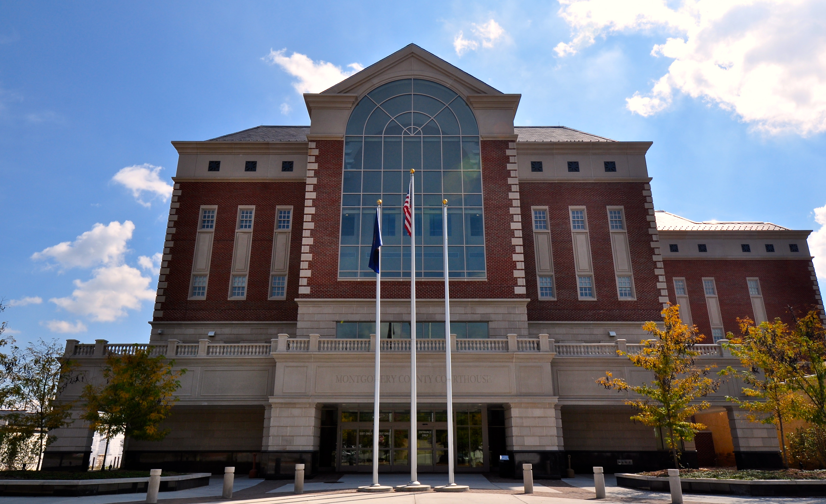 The new Montgomery County Courthouse officially open for business on 9 October 2012. The adjacent old courthouse is being renovated as a public safety facility to house the Sheriff's office and regional 911 dispatch center.